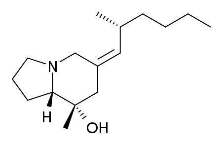 A structure of pumiliotoxin 251D